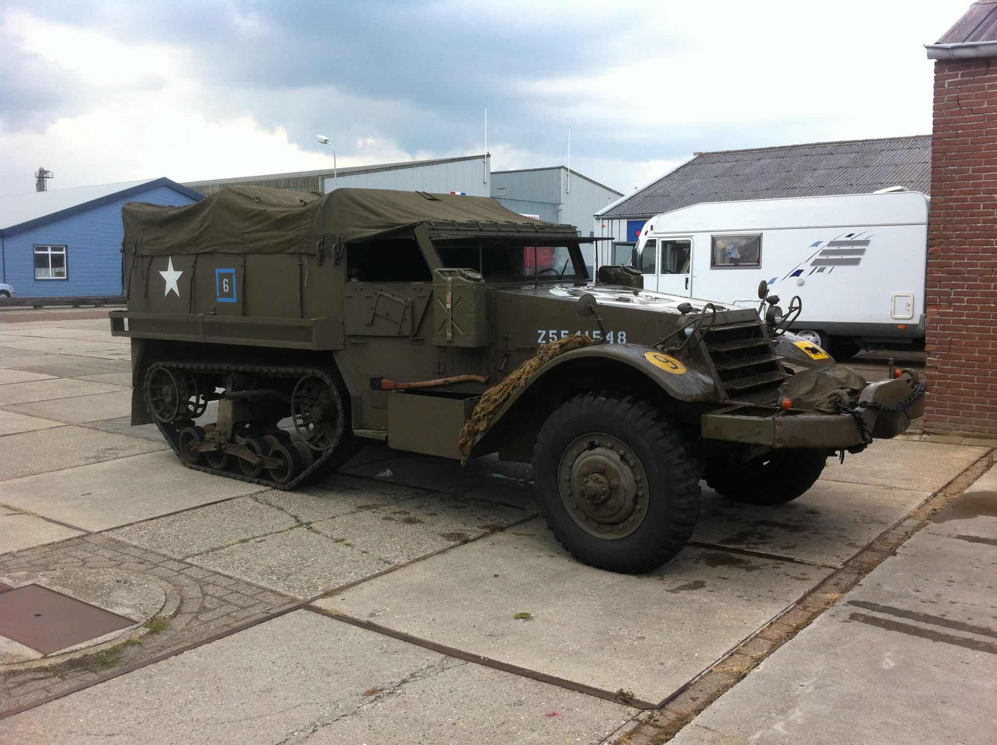 its my own m5 halftrack